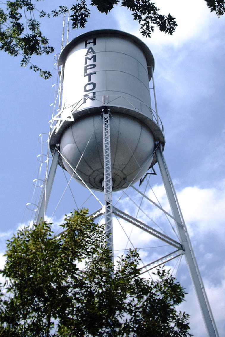 Photo I took of the water tower in Hampton, Minnesota in early September, 2006. CC & GFDL.